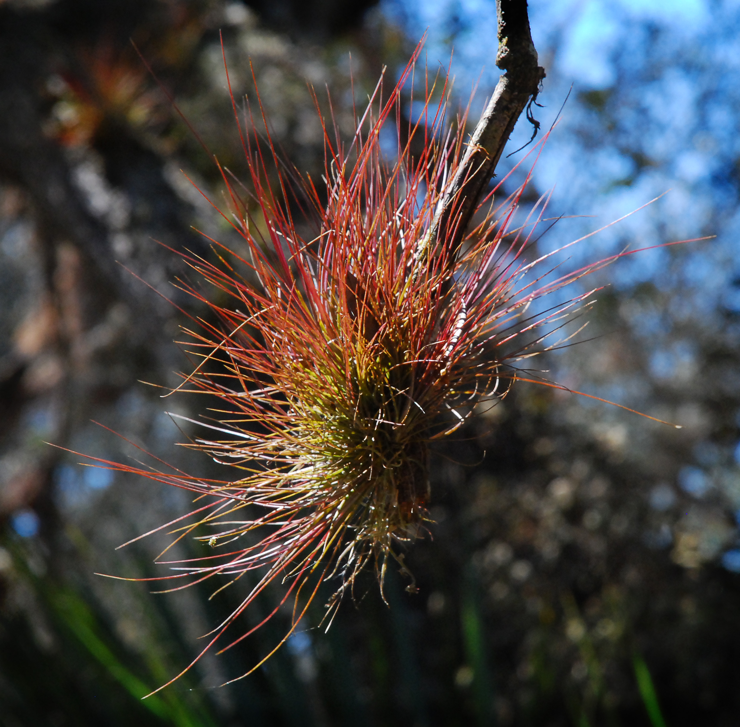 Photographed in Florida at Starvation Slough, near the Kississimee River. This is a bromeliad "air plant" in the same genus as Spanish Moss.